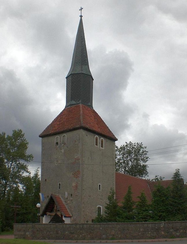 Dębnica Kaszubska - St. John church (bd. 1584)